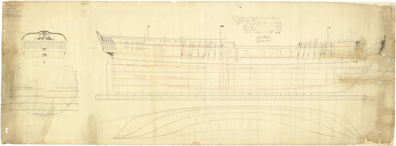 NYMPHE FL.1780 [FRENCH] lines & profile